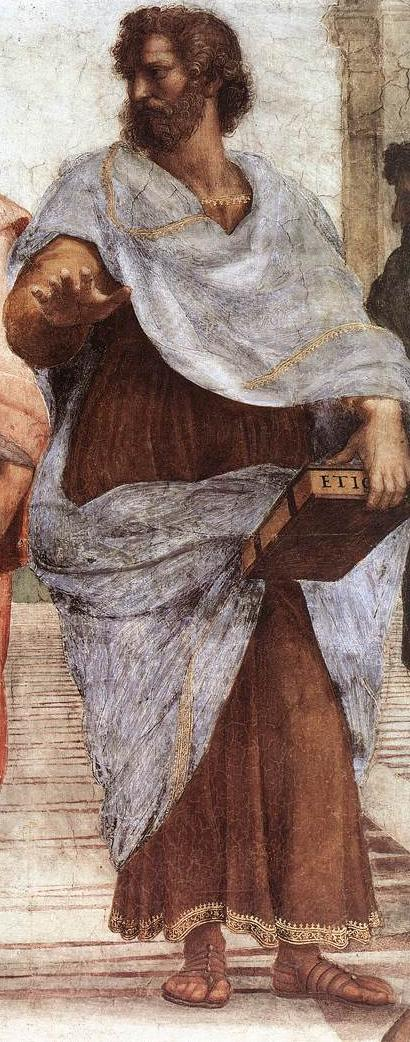 detail from the Vatican fresco The School of Athens